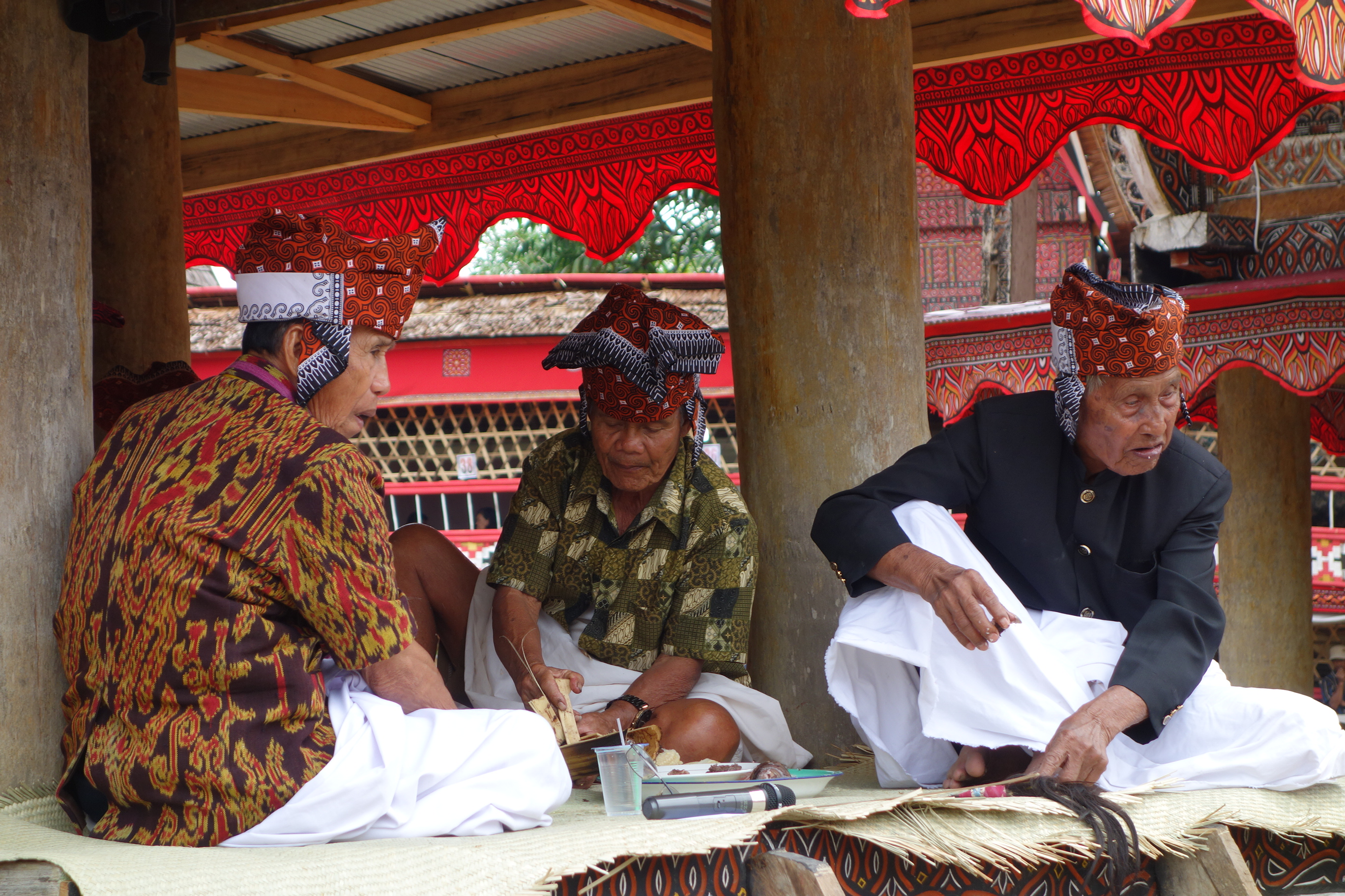 A trio of Toraja elders wearing traditional dress at a wake ceremony (Rantepao community); March 2014